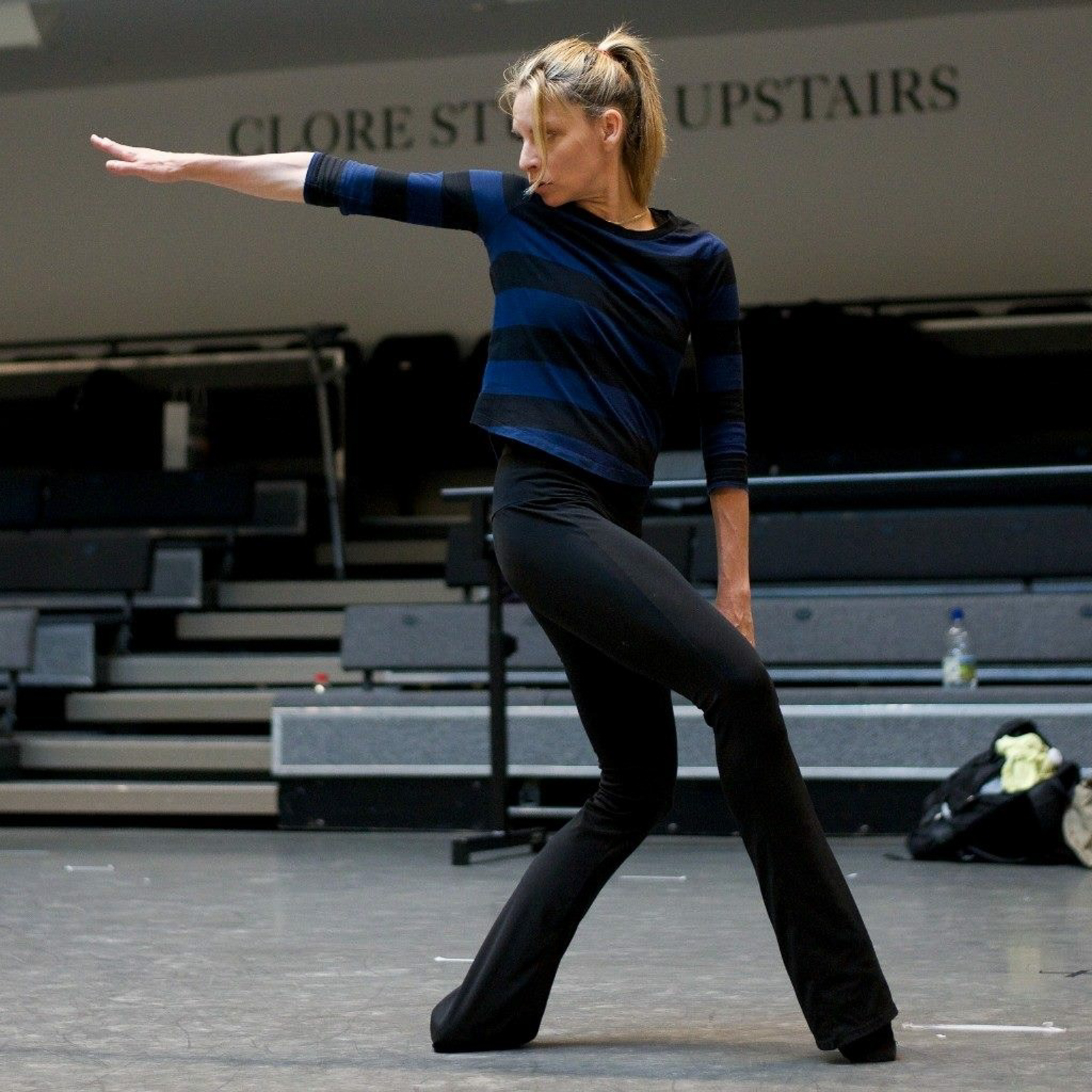 Antonia Franceschi Choreographing at the Royal Opera House London